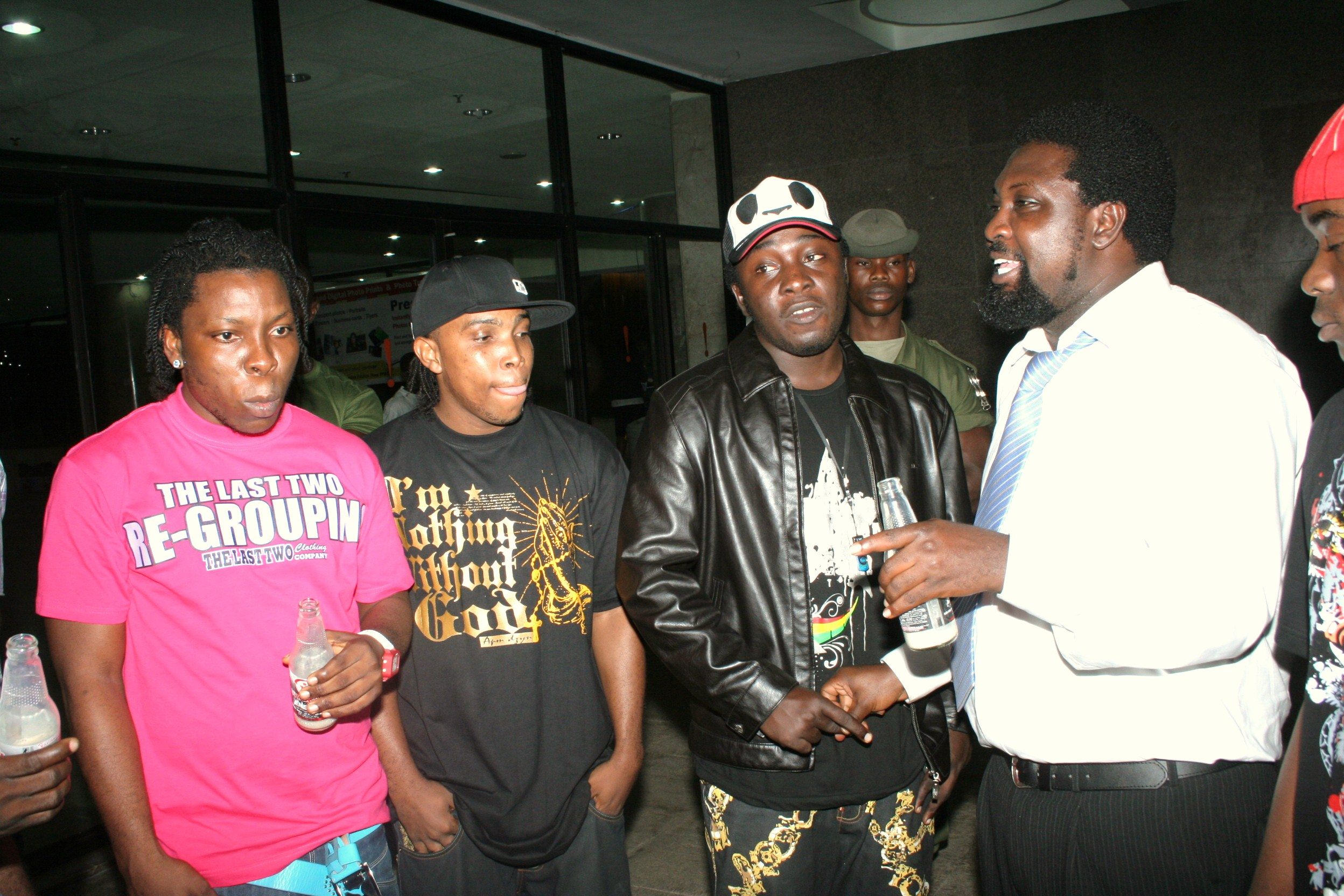 Hammer hanging out with Ghanaian hip hop artistes Ayigbe Edem, Scientific and top producer Jayso at the Ghanaian National theater after the 'save the dance' concert.